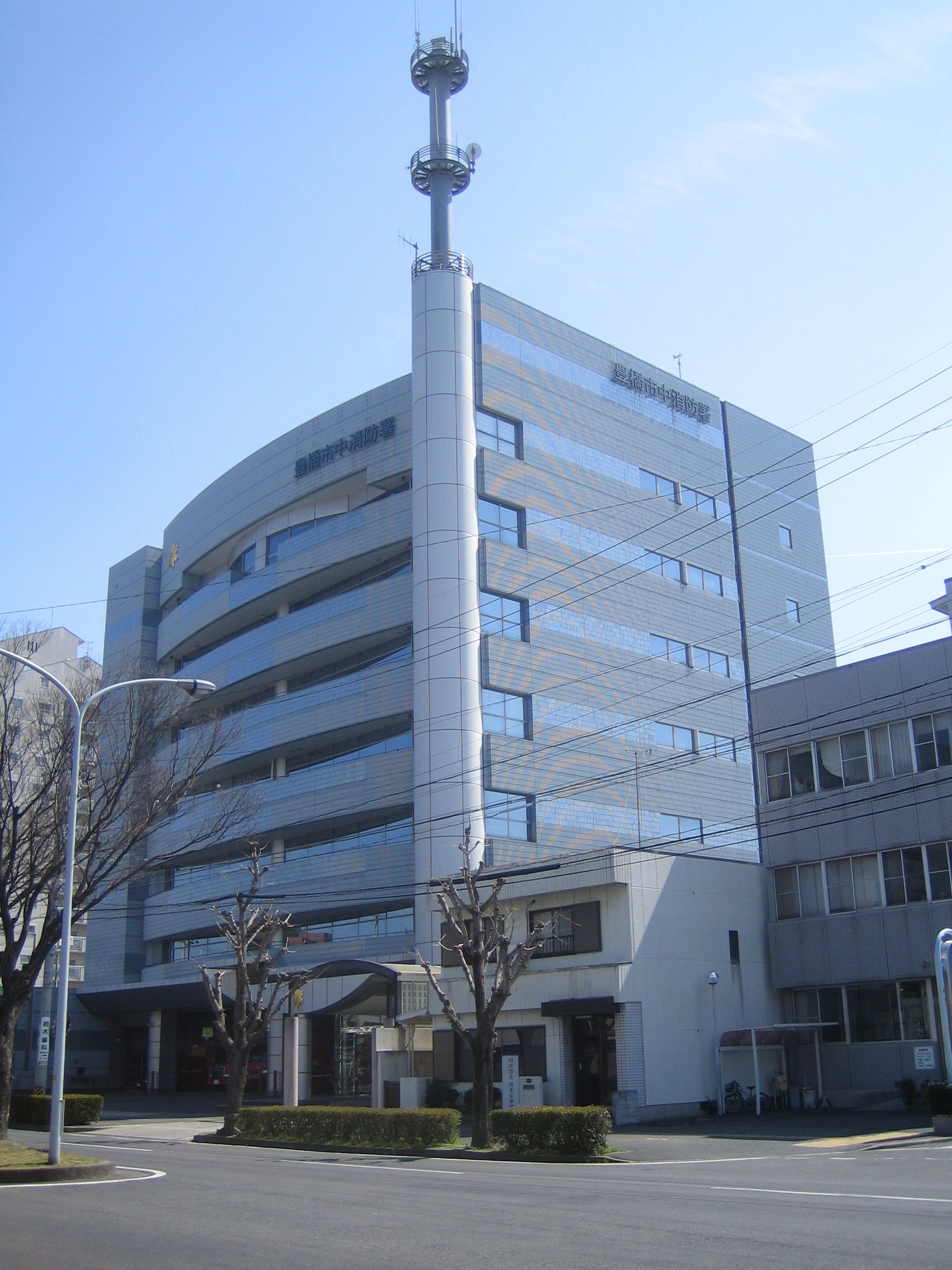 Toyohashi City Naka Fire Station (豊橋市中消防署), located in Toyohashi, Aichi, Japan